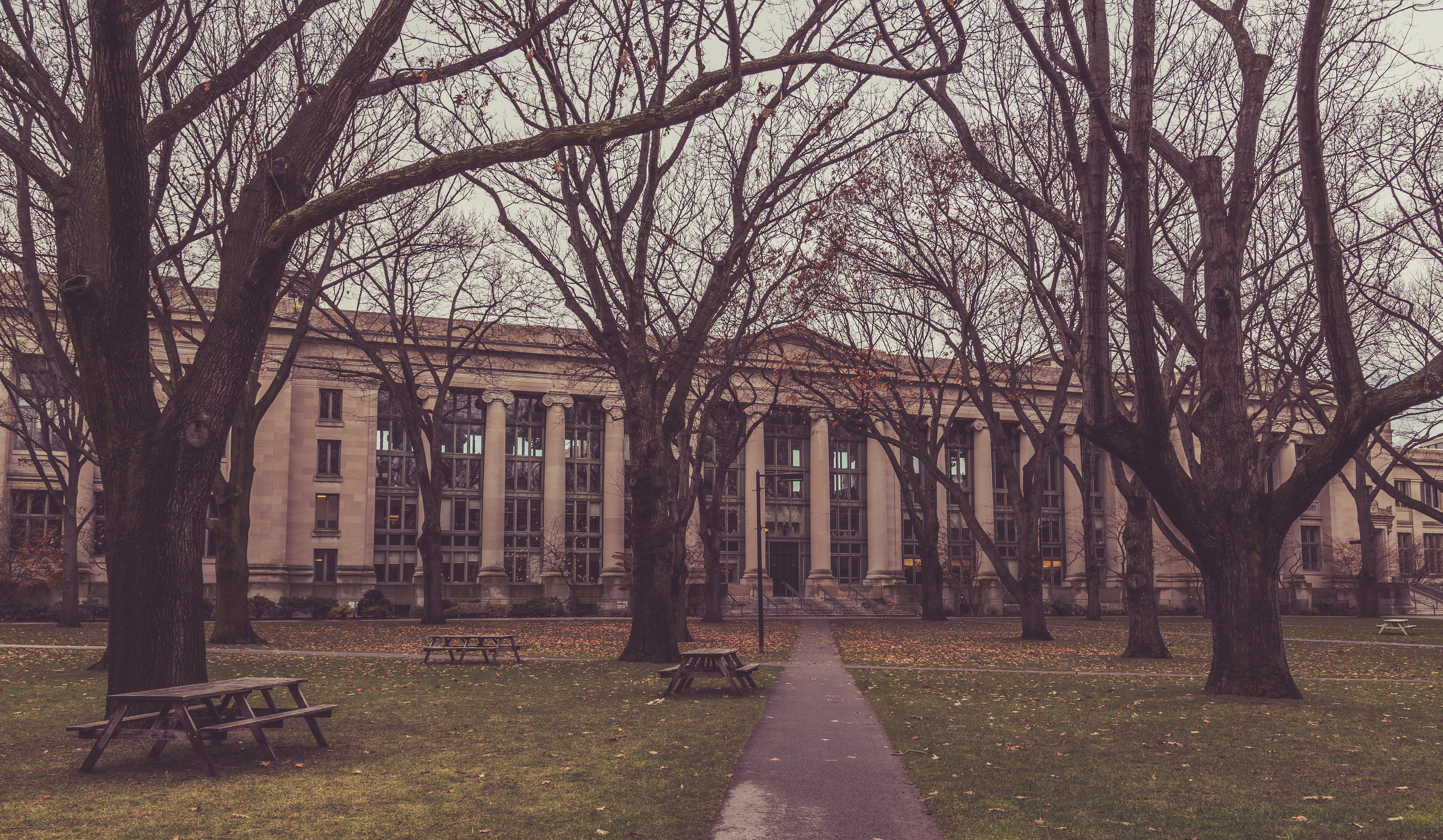 Langdel Hall - Harvard Yard. Harvard University, Cambridge, University